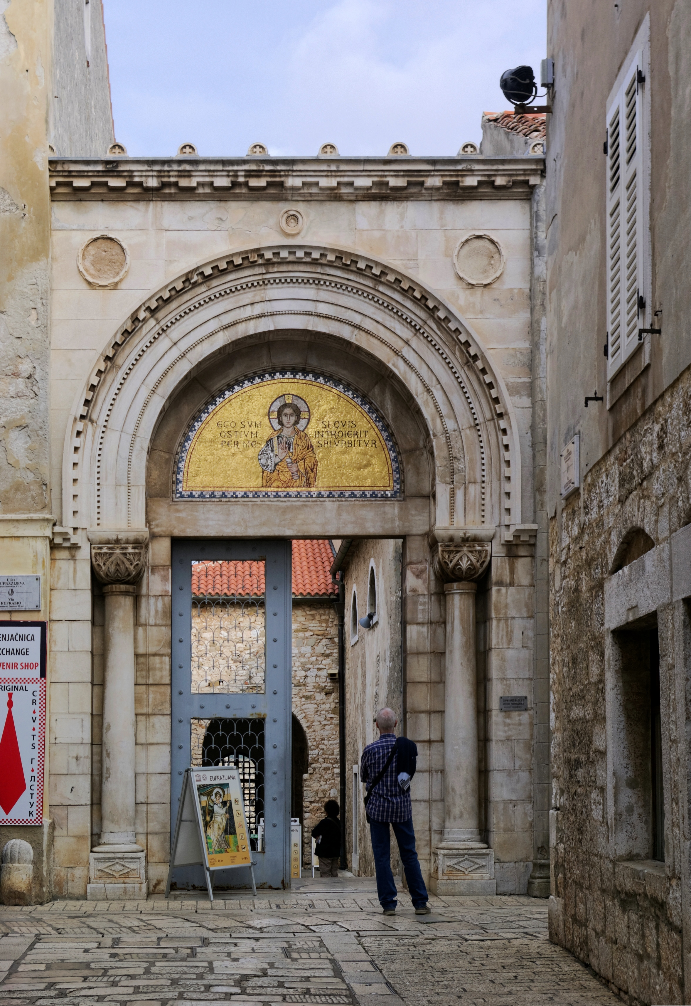 Croatia, Poreč, Euphrasian Basilica